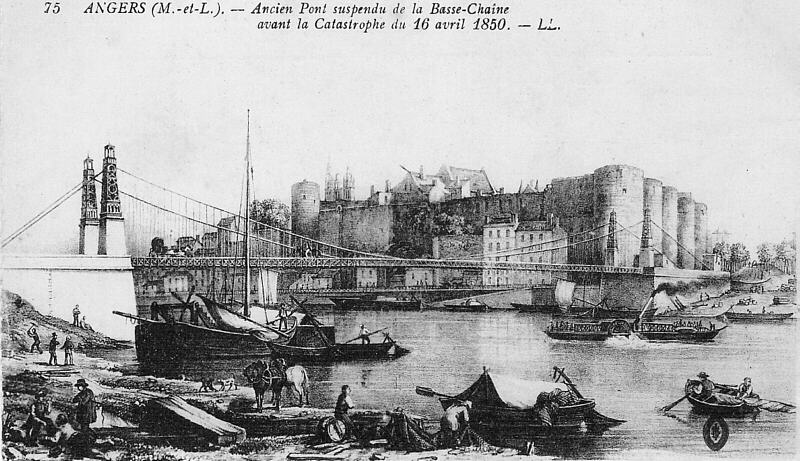 Image of Pont de la Basse-Chaîne (Angers bridge) taken from website on 23 November 2007, showing bridge prior to collapse in 1850 and hence the author must now be deceased.